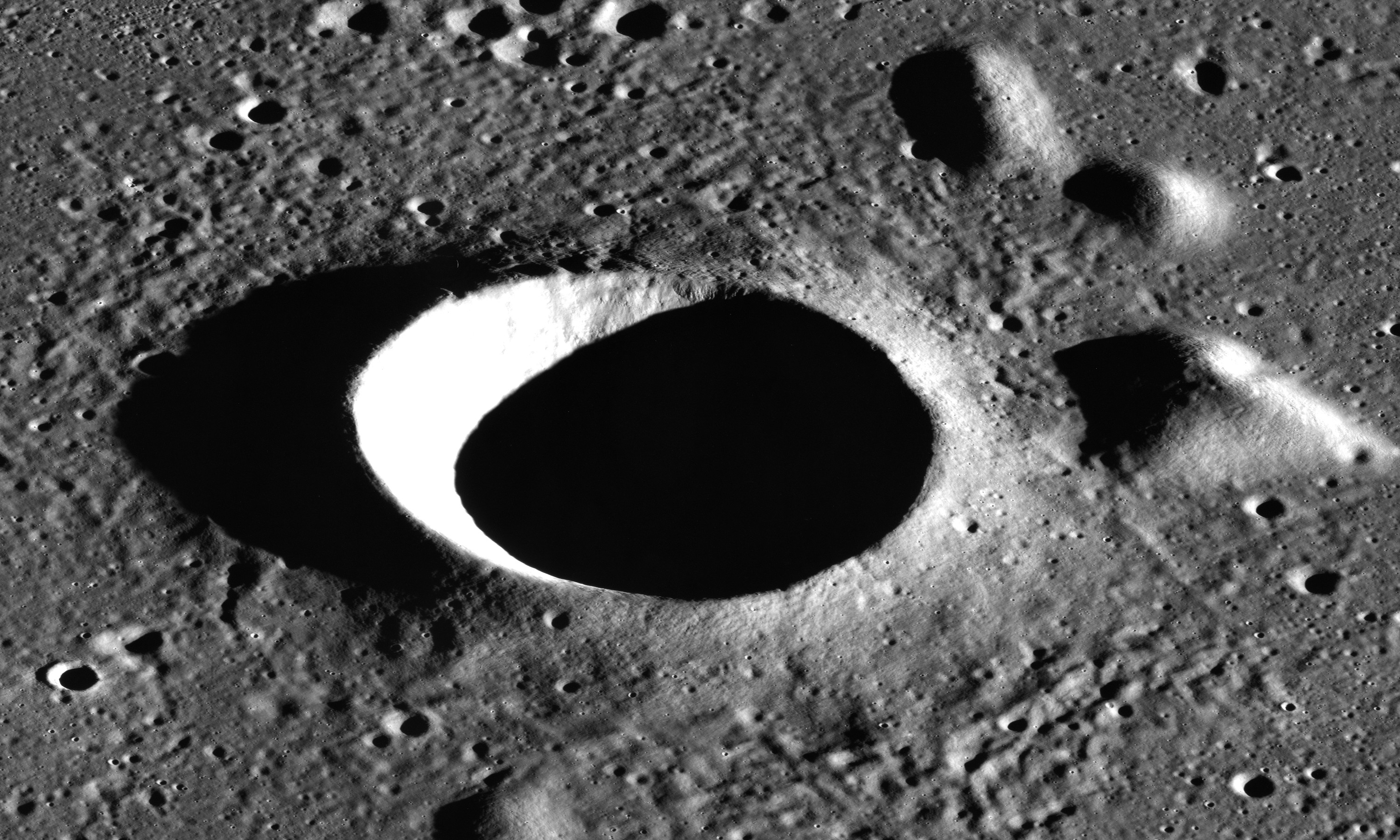 Oblique view of Artsimovich crater, facing north, on the moon. Taken by Apollo 17 panoramic camera.